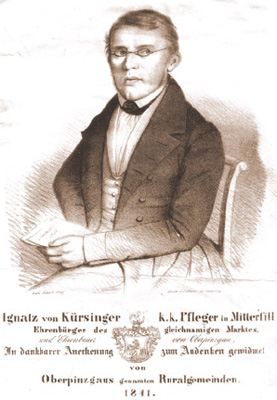 Ignaz von Kürsinger (1795-1861), 1841.